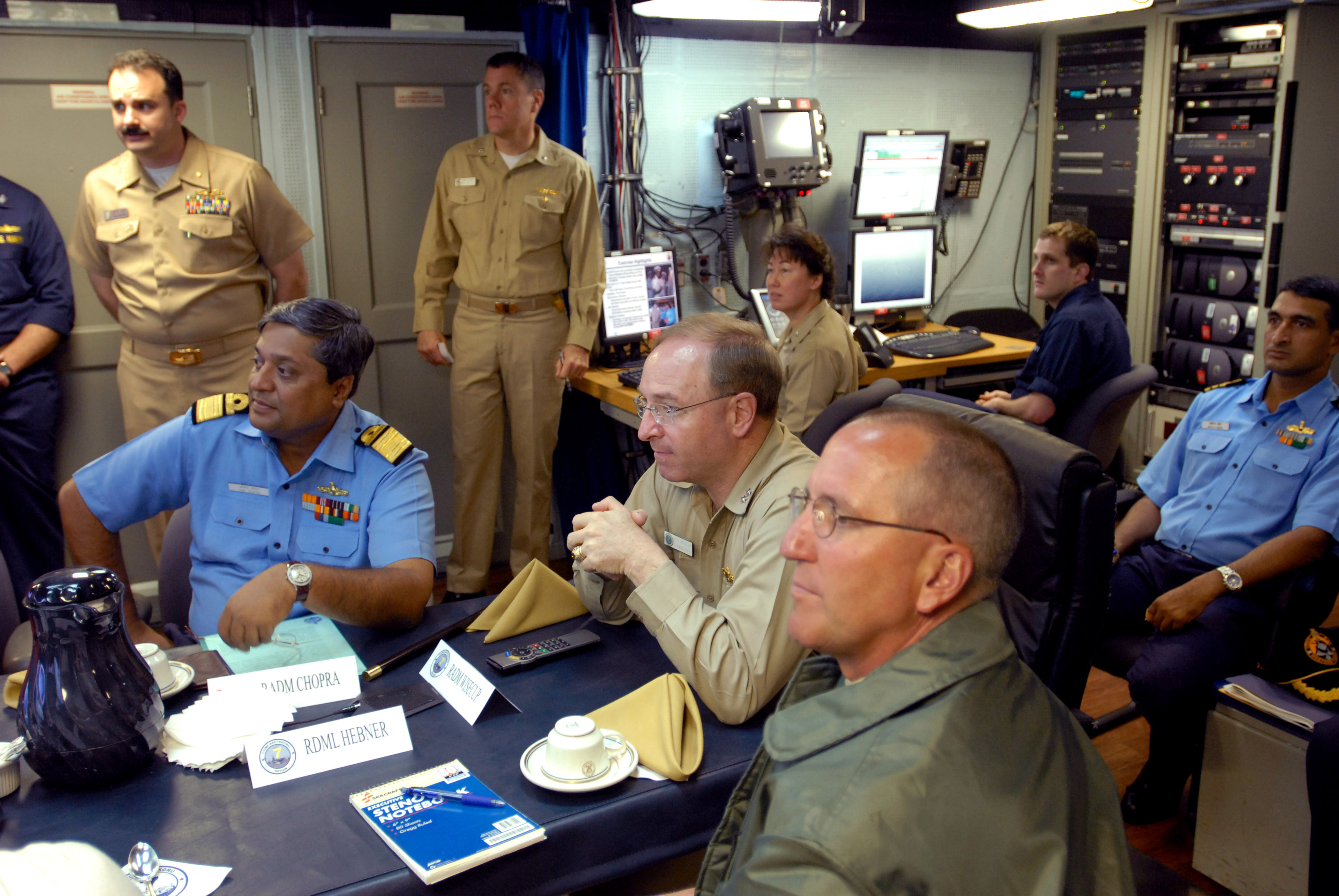 Rear Adm. Phil Wisecup and Rear Adm. Anil Chopra join their respective strike group commanding officers for the Exercise Malabar 08 debrief. 081022-N-7730P-033 INDIAN OCEAN (Oct. 22, 2008) Rear Adm. Phil Wisecup, commander, Carrier Strike Group Seven, and Rear Adm. Anil Chopra, flag officer in command of the Indian navy's western fleet, join their respective strike group commanding officers for the Exercise Malabar 08 debrief aboard the Nimitz-class aircraft carrier USS Ronald Reagan (CVN 76). The Ronald Reagan Carrier Strike Group is on a scheduled deployment in the 7th Fleet area of responsibility operating in the western Pacific and Indian oceans. — Released (Text by U.S. Navy)